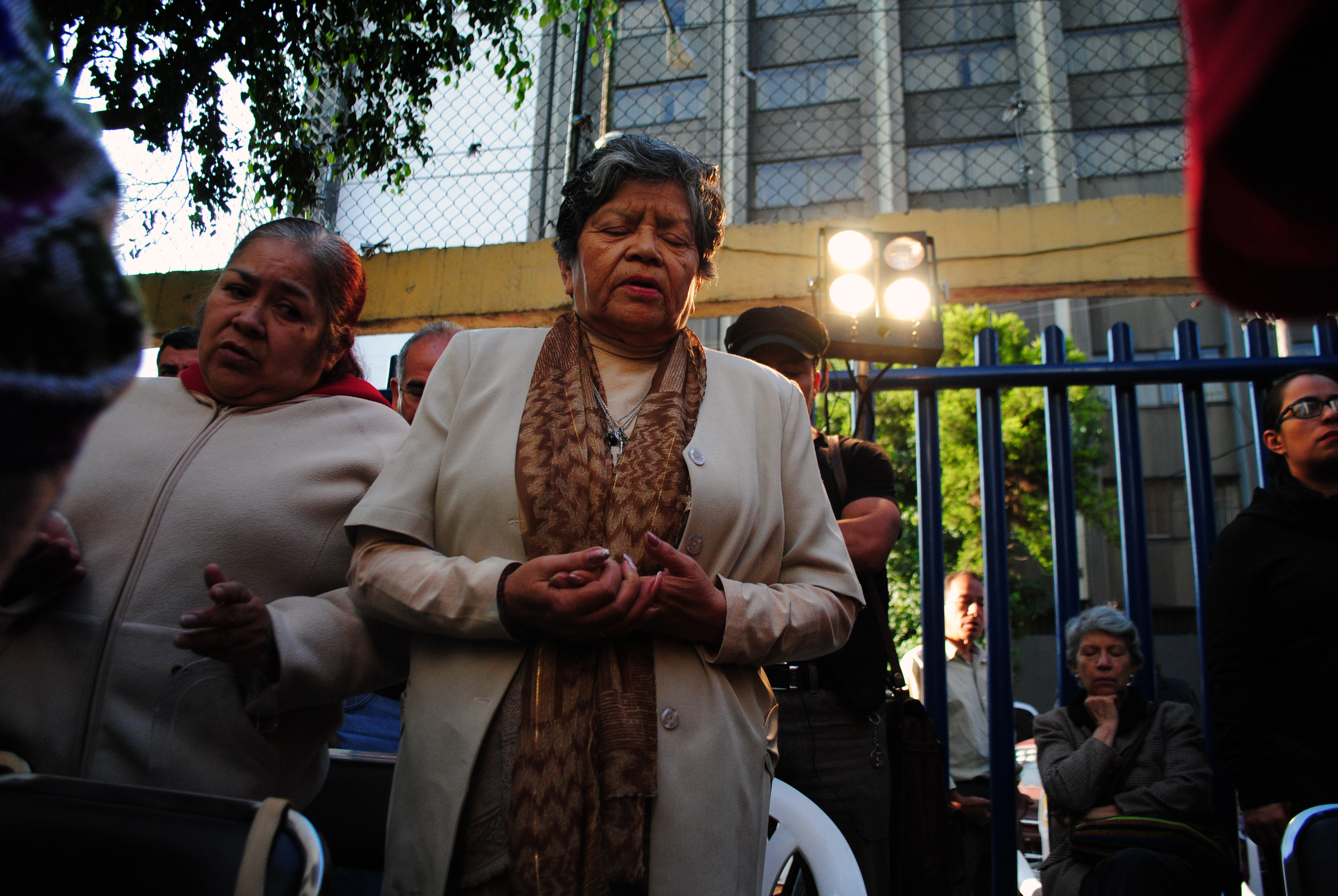 Ms. Guadalupe, fprmer seamstresses, praying Lord's Prayer at Commemorative Mass of the Association of Sewers and Seamstresses September 19, held on September 19, 2014, in Mexico City.